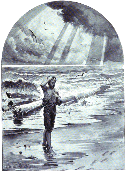 Illustration for the poem "A Psalm of Life" by American poet Henry Wadsworth Longfellow. Illustrates the lines: Footprints, that perhaps another, Sailing o'er life's solemn main, A forlorn and shipwrecked brother, Seeing, shall take heart again. From A Psalm of Life, published by E.P. Dutton & Company, 1891.